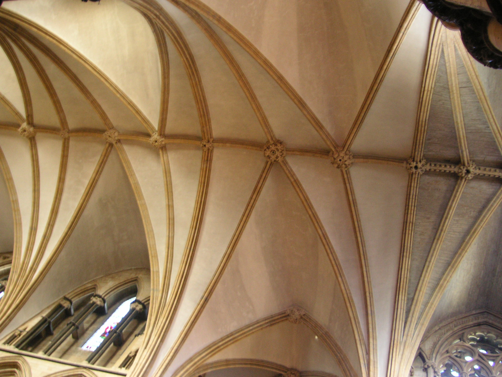 Asymmetrical vault of St Hugh's Choir, Lincoln Cathedral, England